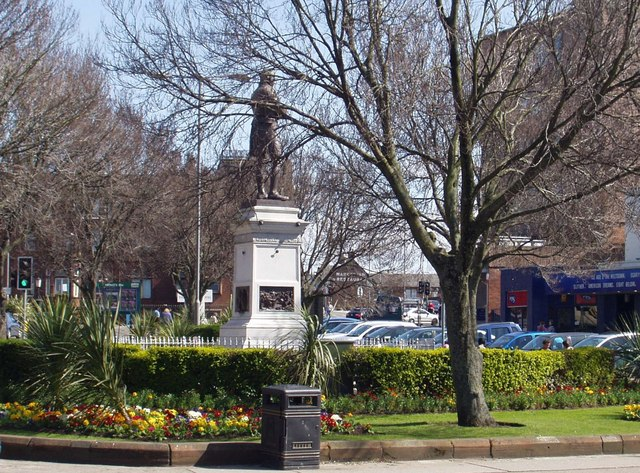 Burns Statue Square, Ayr. Sculpture by G.A. Lawson.